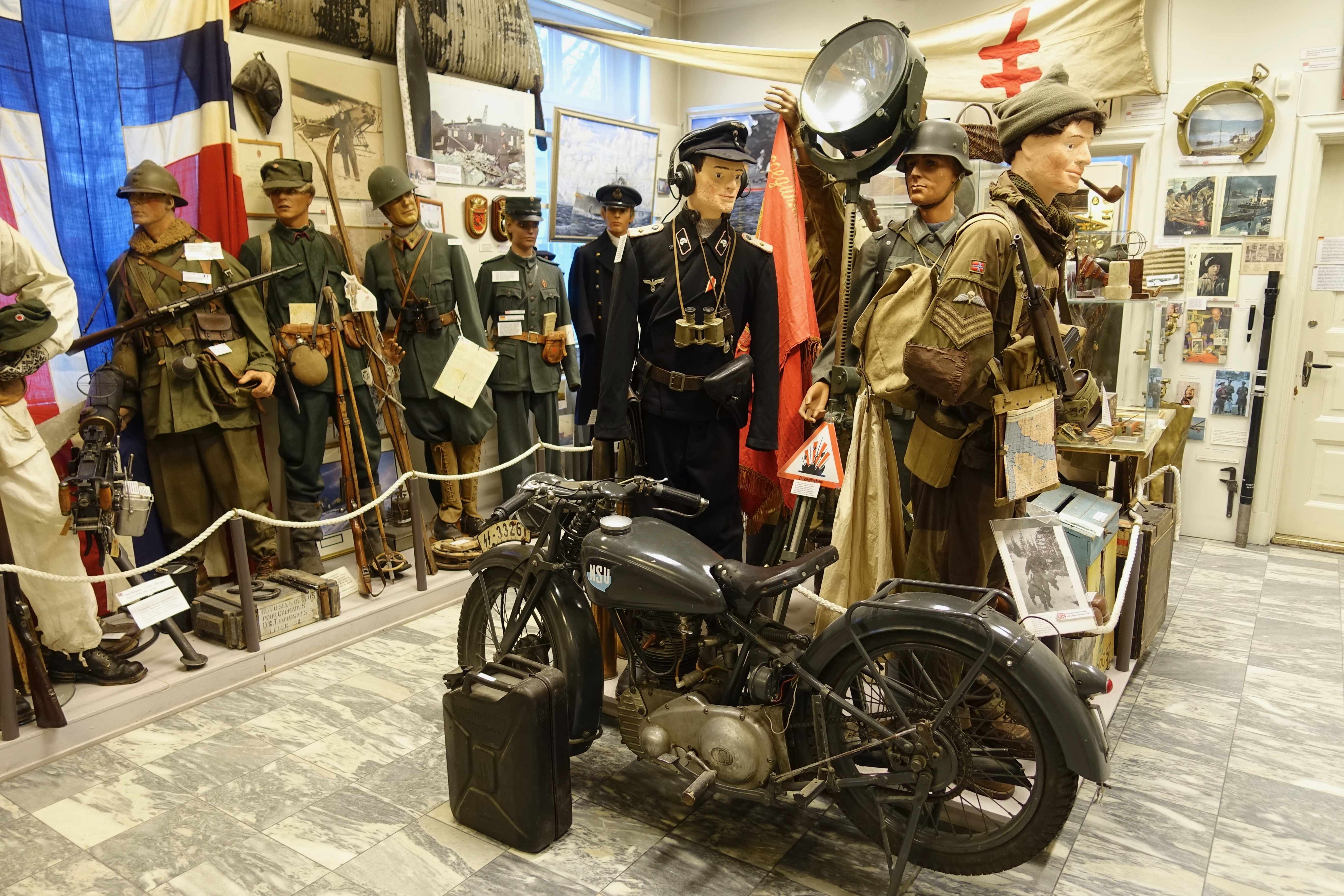 Uniforms and items from WWII in Norway: Panzer uniform, black tank crew's uniform of German Wehrmacht. Lieutenant rank insignia on shoulder straps, Totenkopf skull insignia on collar patches, etc. Also field cap, belt, holster, headset, Zerknallgefahr warning sign, NSU motorcycle, petrol can, Norwegian flag, French flag with Cross of Lorraine, searchlight etc. Misc. military uniforms of Norway, France, and Great Britain (Norwegian mountain soldier in British battle dress).Photo taken on May 8, 2019 at the Lofoten War Memorial Museum (Lofoten Krigsminnemuseum) in Svolvær, Norway. The museum exhibits uniforms, militaria, smaller items, memorabilia, etc. related to World War II and the German occupation of Norway 1940 – 1945. Legal disclaimer This image shows (or resembles) a symbol that was used by the National Socialist (NSDAP/Nazi) government of Germany or an organization closely associated to it, or another party which has been banned by the Federal Constitutional Court of Germany. The use of insignia of organizations that have been banned in Germany (like the Nazi swastika or the arrow cross) are also illegal in Austria, Hungary, Poland, Czech Republic, France, Brazil, Israel, Ukraine, Russia and other countries, depending on context. In Germany, the applicable law is paragraph 86a of the criminal code (StGB), in Poland – Art. 256 of the criminal code (Dz.U. 1997 nr 88 poz. 553).